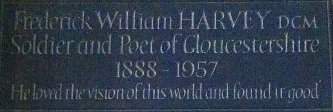 Frederick William Harvey DCM. Soldier and Poet of Gloucestershire 1888 - 1957. He loved the vision of this world and found it good.